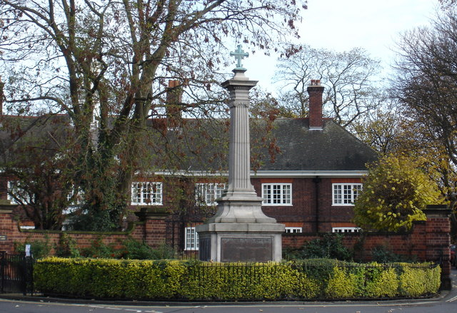 War Memorial, Church Street, Lenton